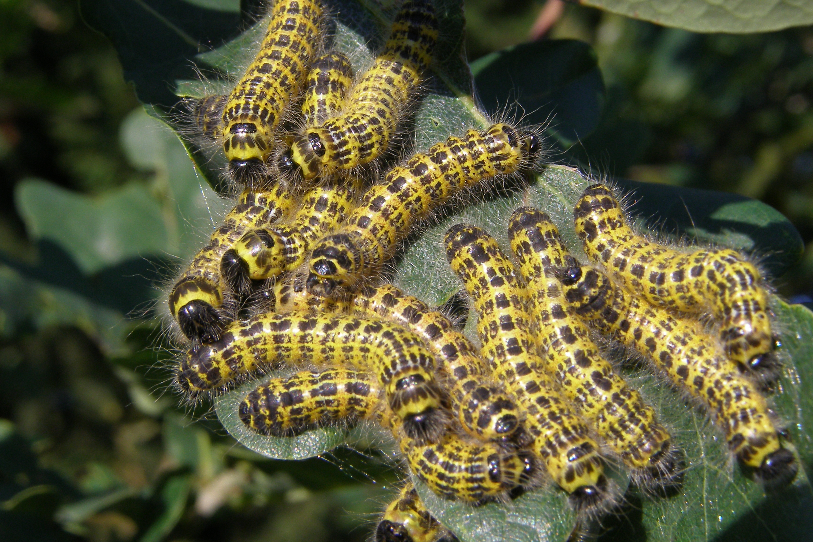 Phalera bucephala (larvae in society)